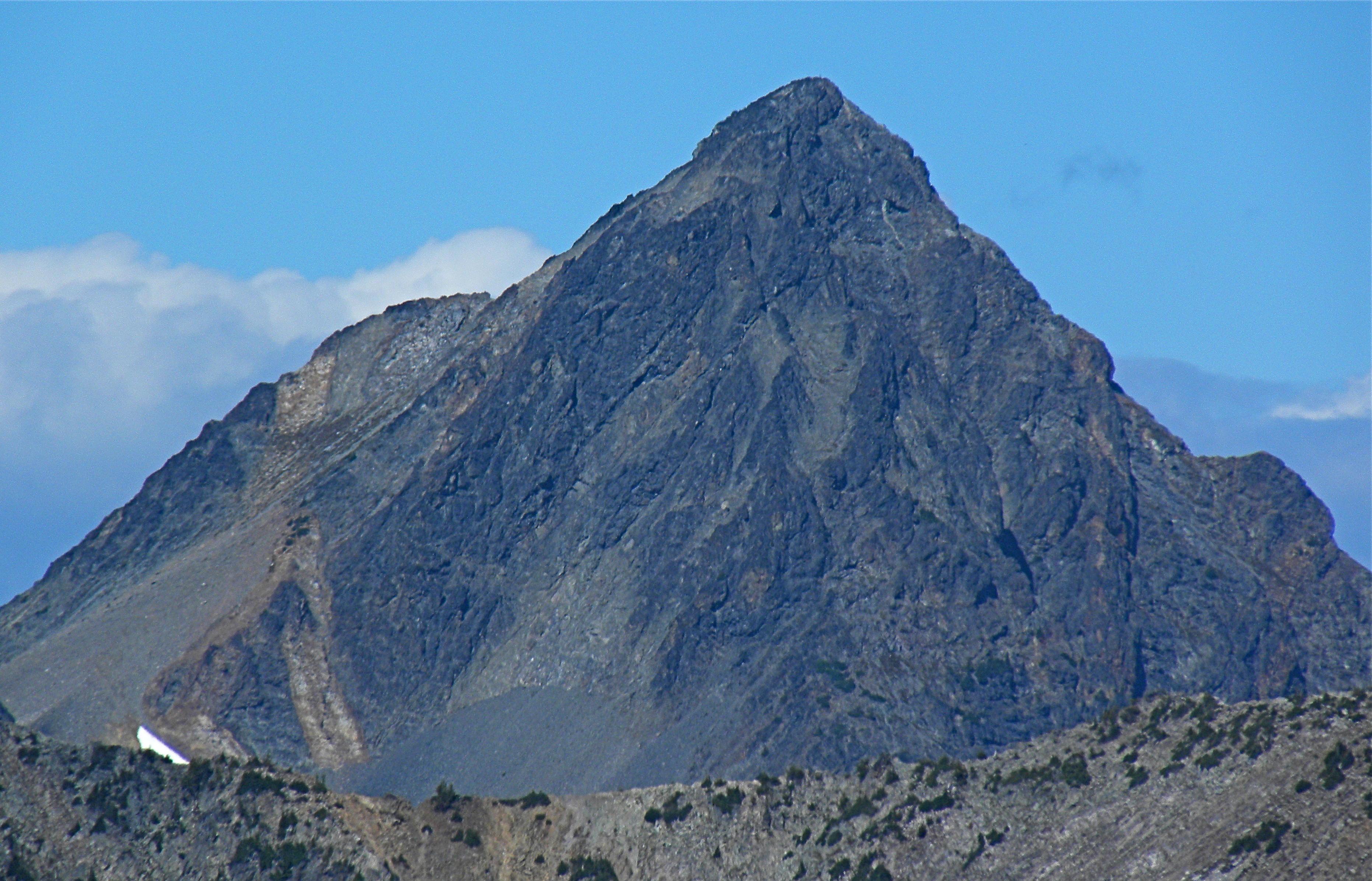 Graybeard Peak telephoto from Maple Pass Loop Trail in the North Cascades of WA